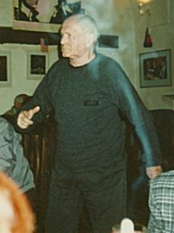 Bohumil Hrabal (1914-1997), Czech writer (Prague, September 1994)